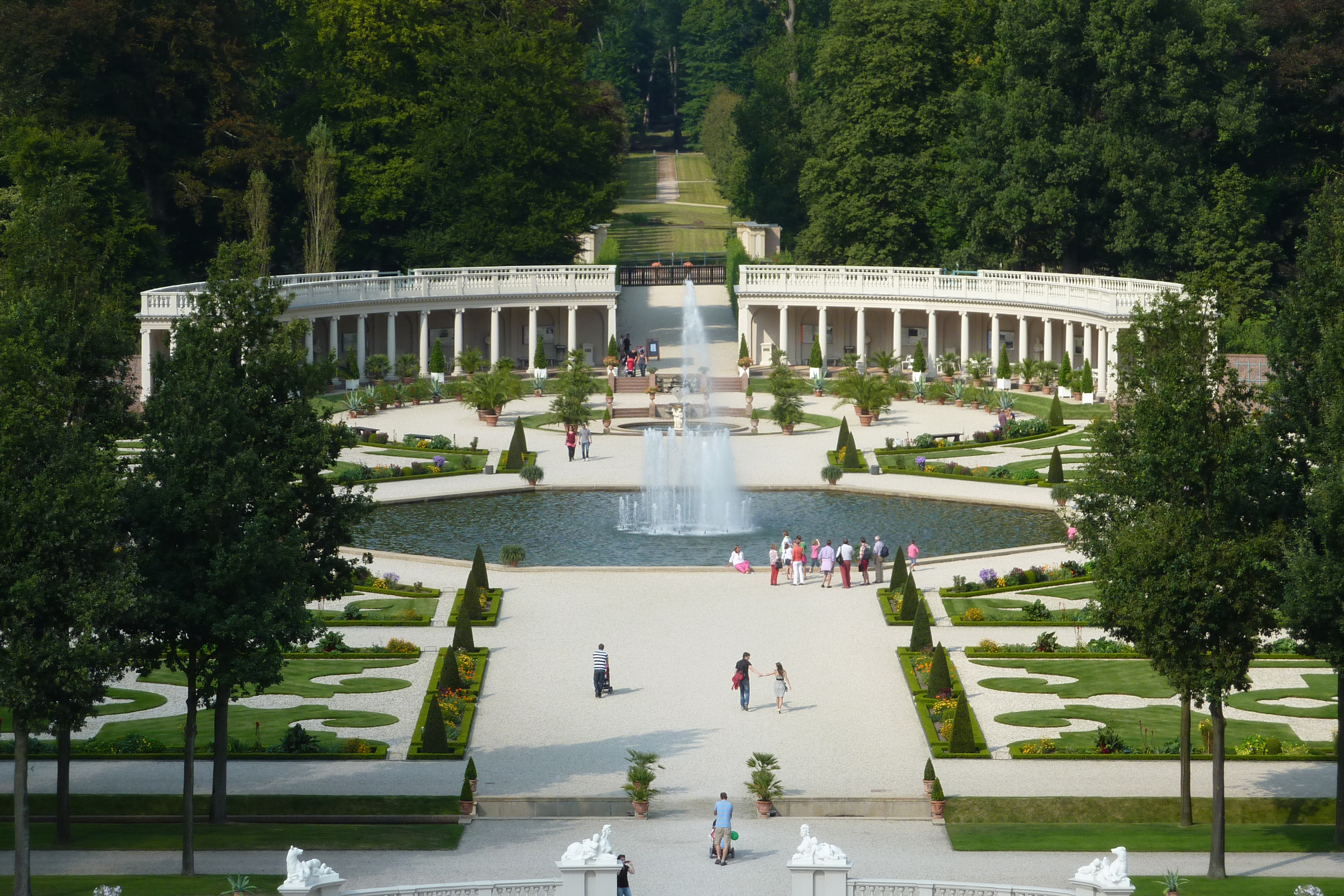 Palace Park at Het Loo in Apeldoorn, the Netherlands